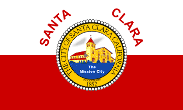 The official city flag of Santa Clara, California, first created in 1967.